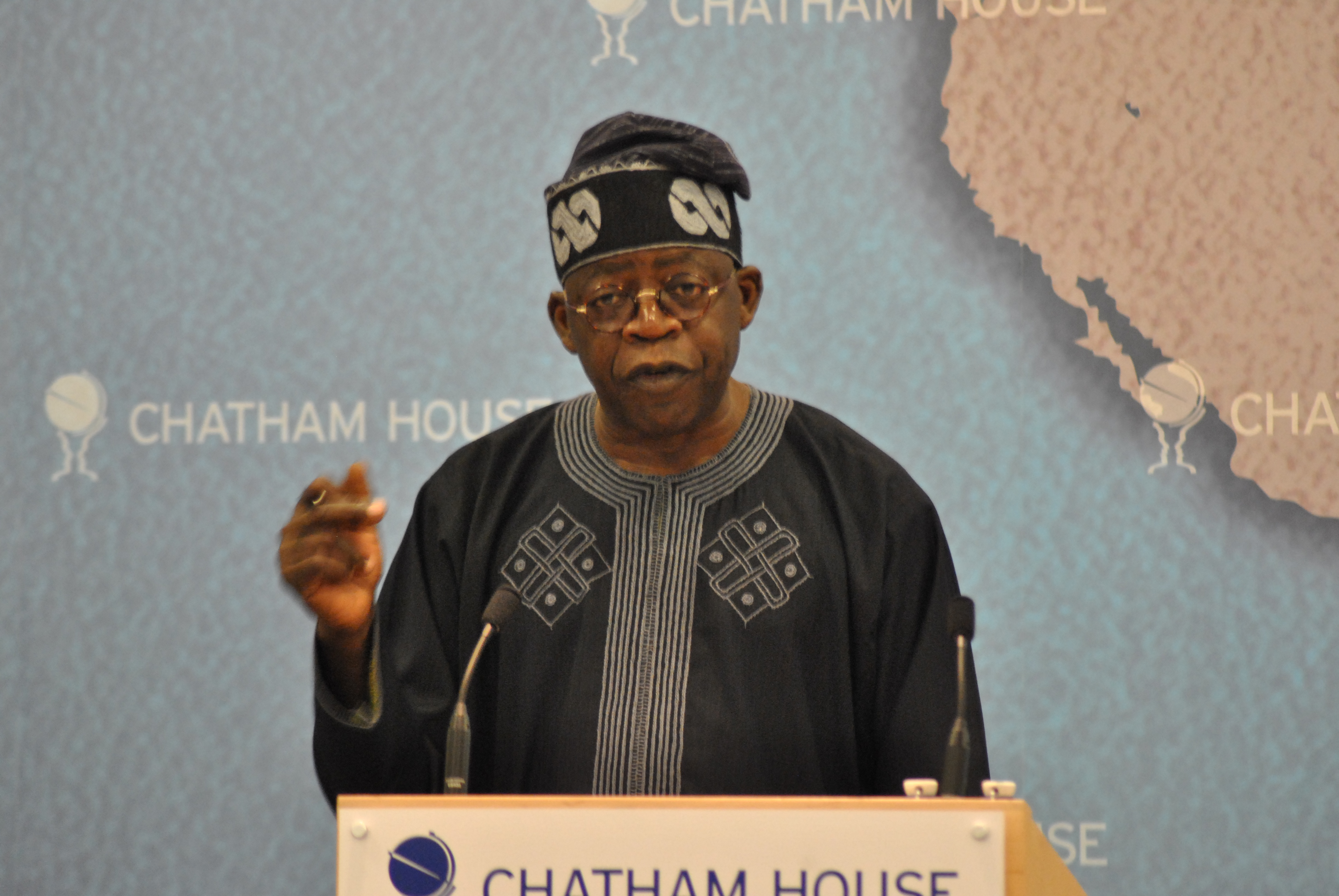 Democracy in Nigeria and the Rebirth of Opposition, 18 July 2011